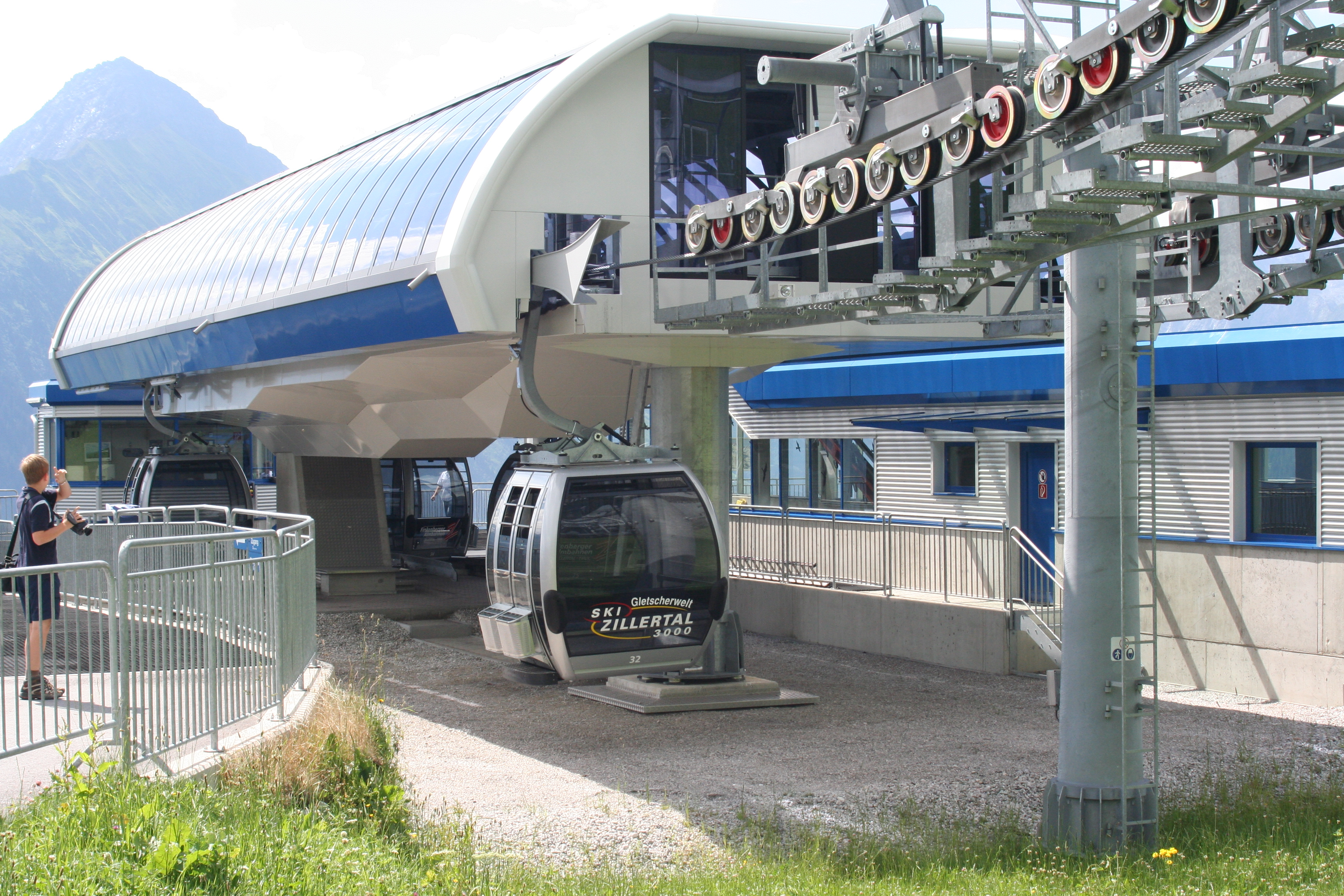 Finkenberg 2 is an aerial tramway in Finkenberg the Tyrol, Austria, running along the course of a former chairlift.